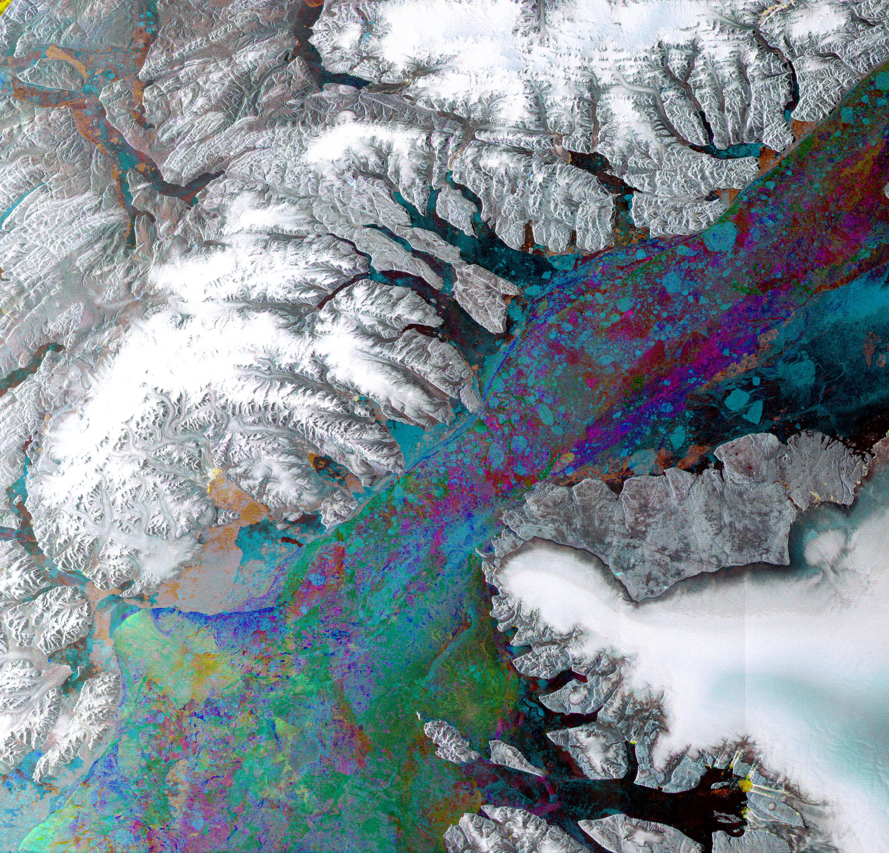 This Envisat radar image features the eastern side of Ellesmere Island (left), the northernmost Canadian island, and portions of the northwest coast of Greenland (right), the world’s largest island. Ellesmere Island, the world’s tenth largest island, is considered part of the Queen Elizabeth Islands, the northernmost cluster of islands in the Canadian Arctic Archipelago. Glaciers and ice caps cover some 80 000 sq km of Ellesmere Island. Inglefield Land is visible in the bottom right corner with the gray colour contrasting against the white and aqua blue colours of an ice cap. In the image, blue, purple and green colours represent the waters of Nares Strait, which comprises several bodies of water. The narrow passage between Inglefield Land and Ellesmere Island is the Smith Sound, which extends some 88 km from Baffin Bay to the south (not visible) to the Kane Basin (dark blue water located above Inglefield Land). Kane Basin is where Greenland’s Humboldt Glacier, the largest known glacier in the world, discharges. As radar images represent surface backscatter rather than reflected light, there is no colour in a standard radar image. This image was created by combining three Envisat Advanced Synthetic Aperture Radar acquisitions (2 February 2009, 14 April 2009 and 10 November 2009) taken over the same area. The colours in the image result from variations in the surface that occurred between acquisitions.